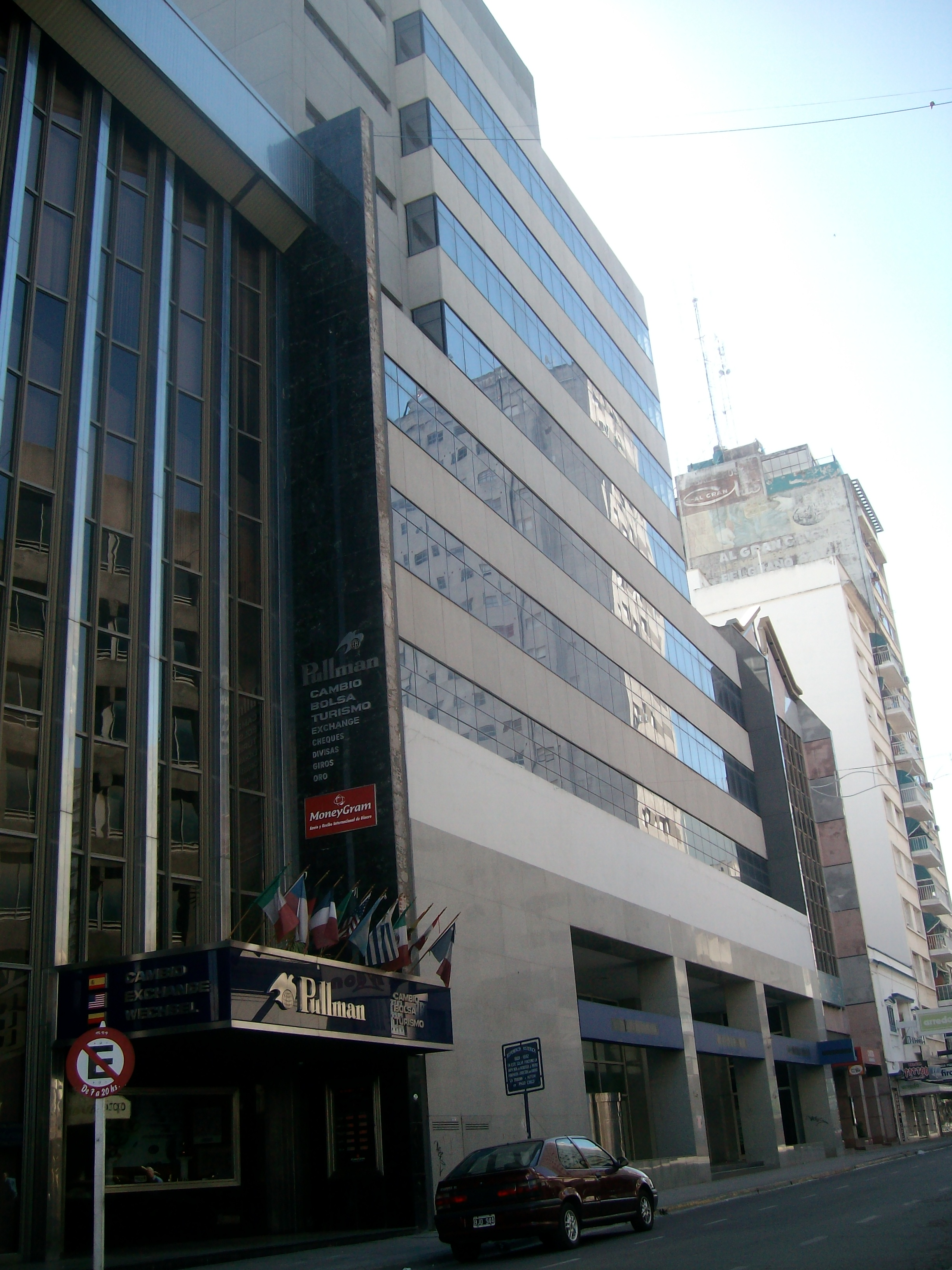 Office building on 145 San Martín Avenue, Bahía Blanca, Argentina.